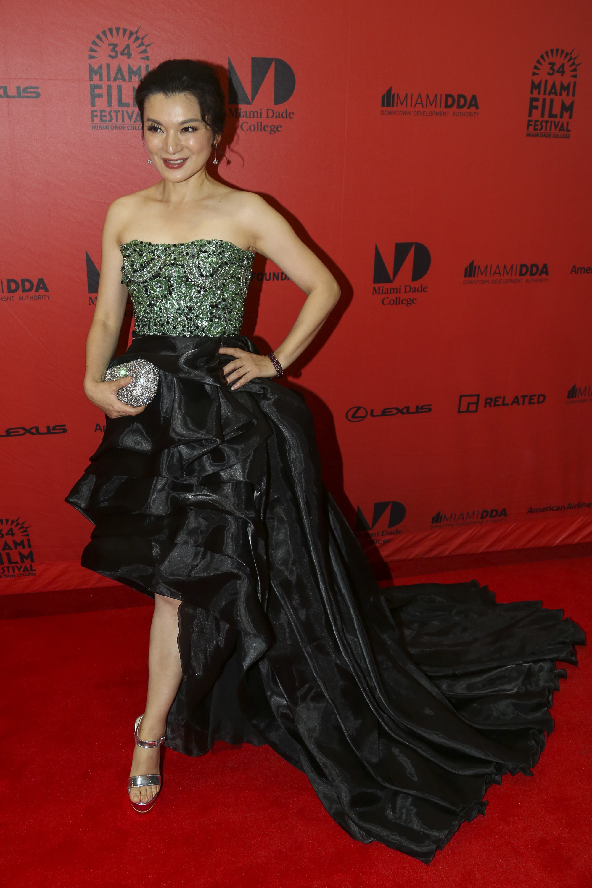 Yan Qingyu at the Closing Night Awards and the film For Your Own Good at Olympia Theater in the Closing of Miami Film Festival on March 11, 2017